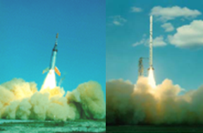 NASA Wallops Flight Facility Mercury & Apollo Test Launches